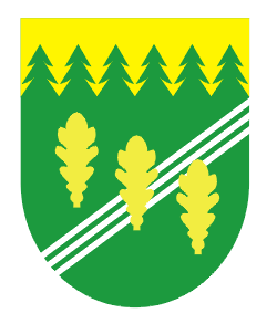 Coat of arms of Sonda vald, Estonia